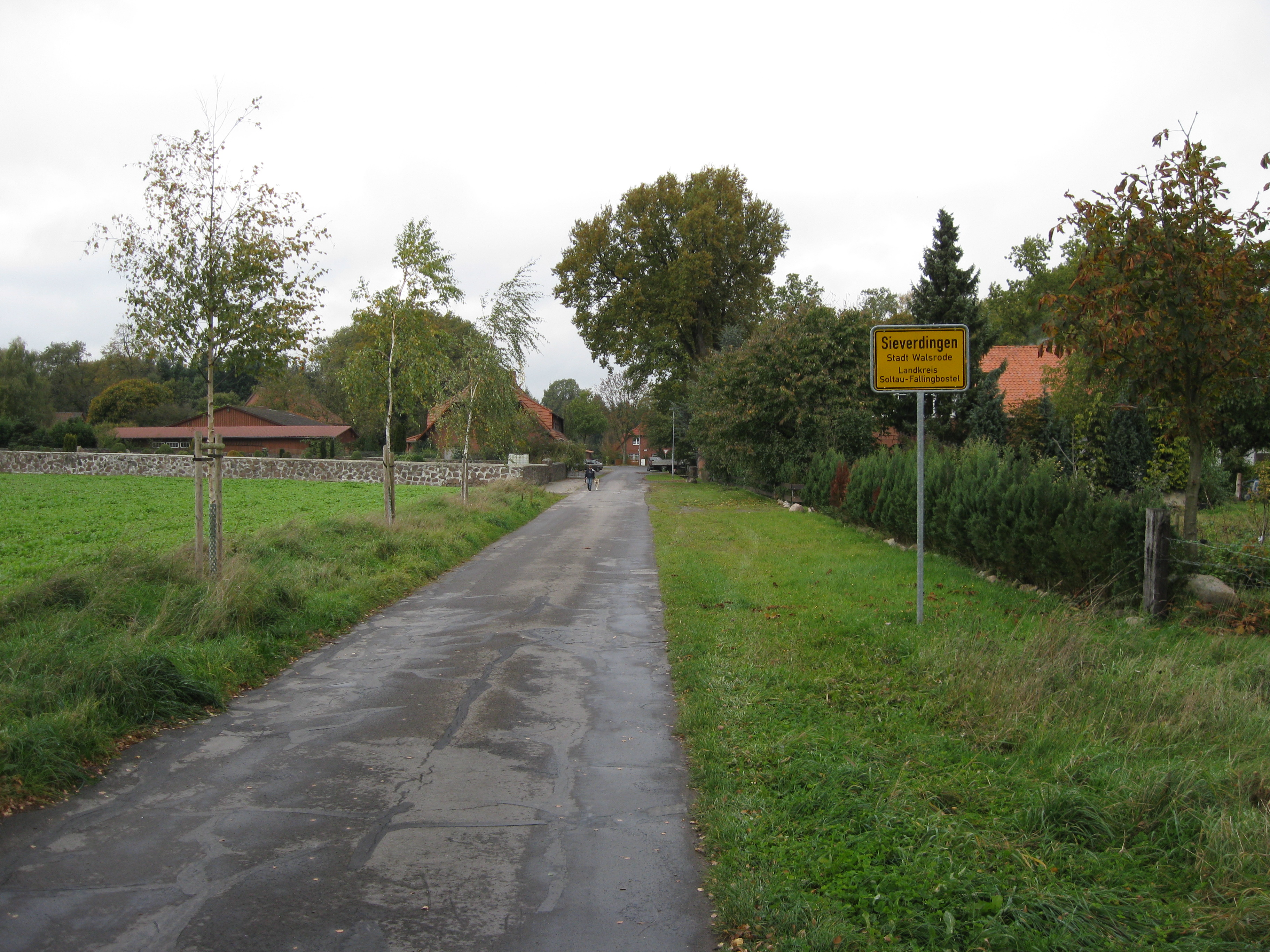 Sieverdingen, Germany